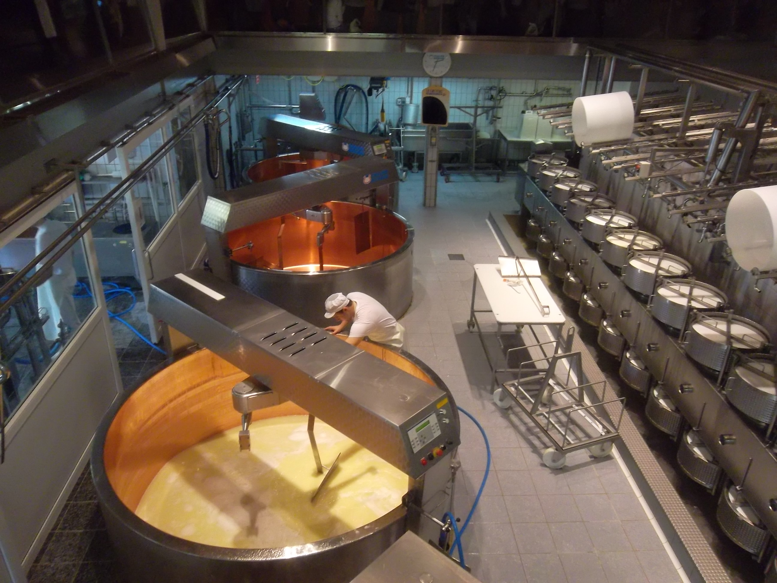 From a cheese factory in Switzerland. The cheese mixture is drained from the drum -- the curds are sent to the wheels at right and the whey is drained and fed to the pigs.